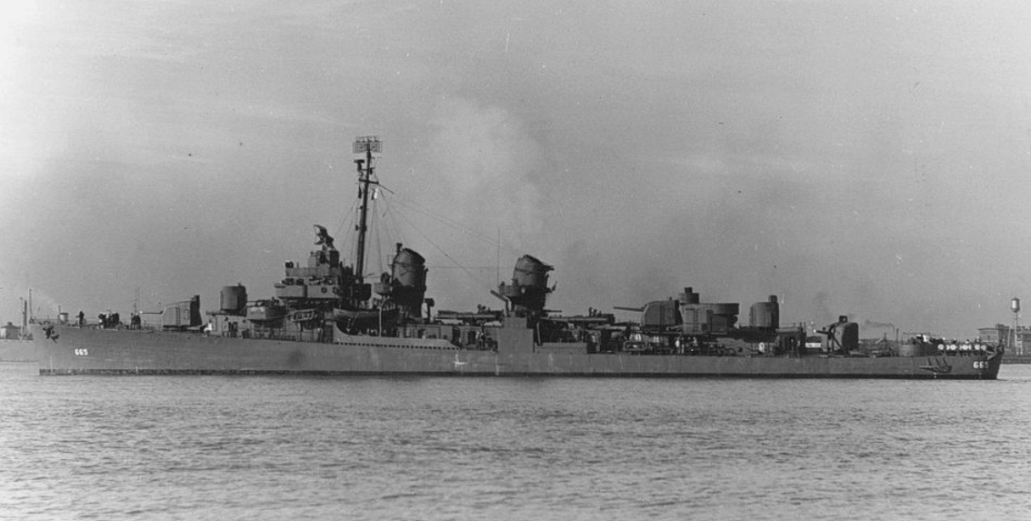 The U.S. Navy destroyer USS Bryant (DD-665) off Charleston, South Carolina (USA), on 7 January 1944.